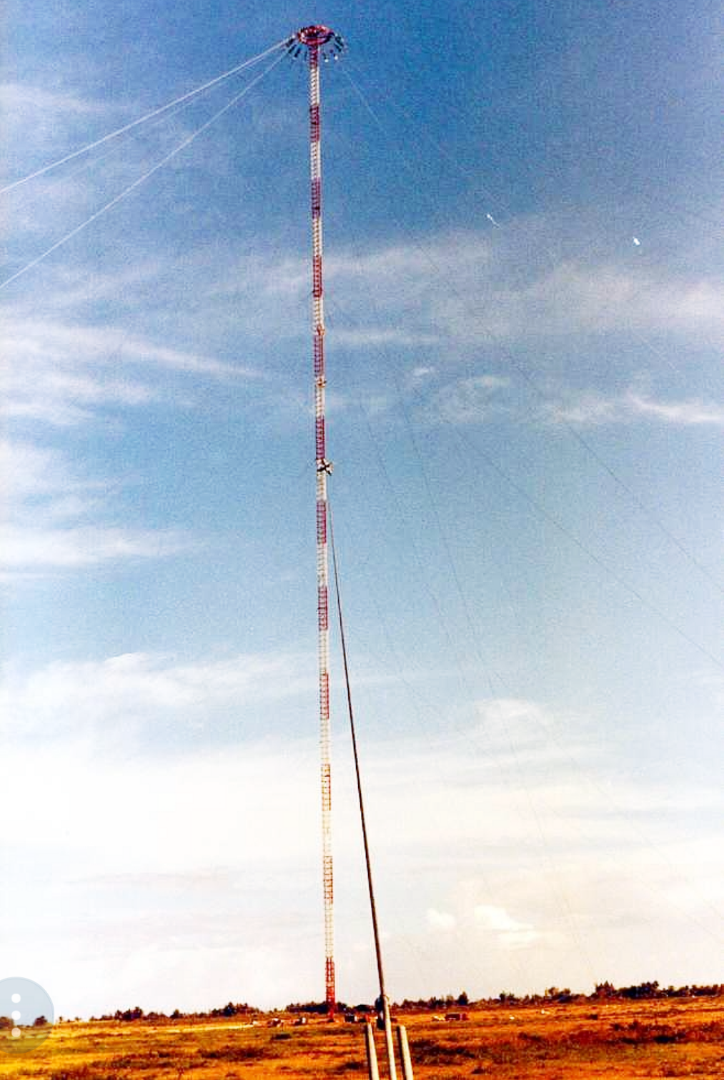 Antenna of the Chabrier Omega Transmitter (station E ) an obsolete electronic navigation system, near Chabrier on Réunion island in the Indian Ocean. It was one of 9 worldwide stations of the Omega navigation system, which transmitted on 10 - 14 kHz in the VLF frequency band. It consists of an umbrella antenna, installed on a 428-meter grounded guyed mast. The mast was demolished with explosives on 14 April 1999.